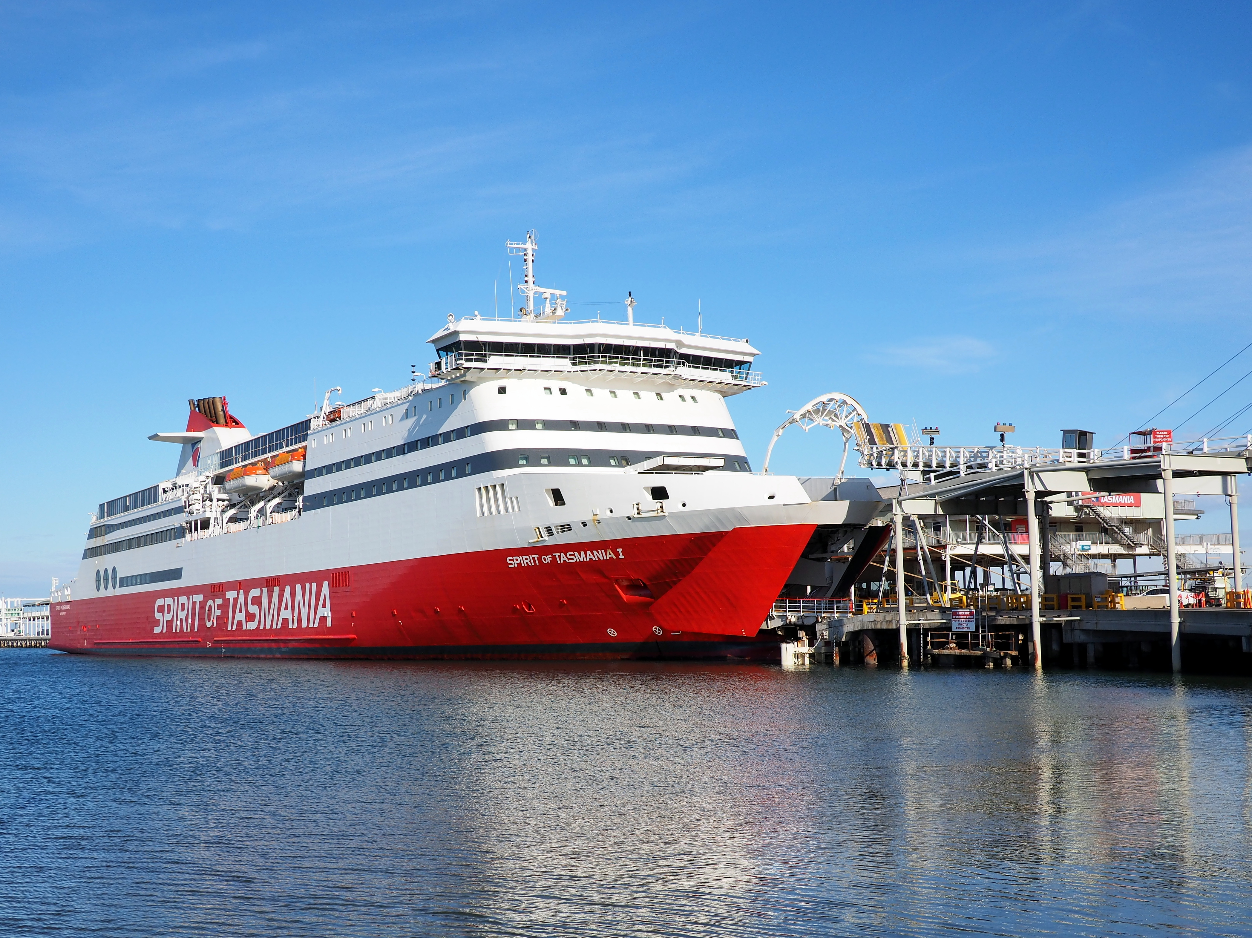 The Spirit of Tasmania I loading at Port Melbourne